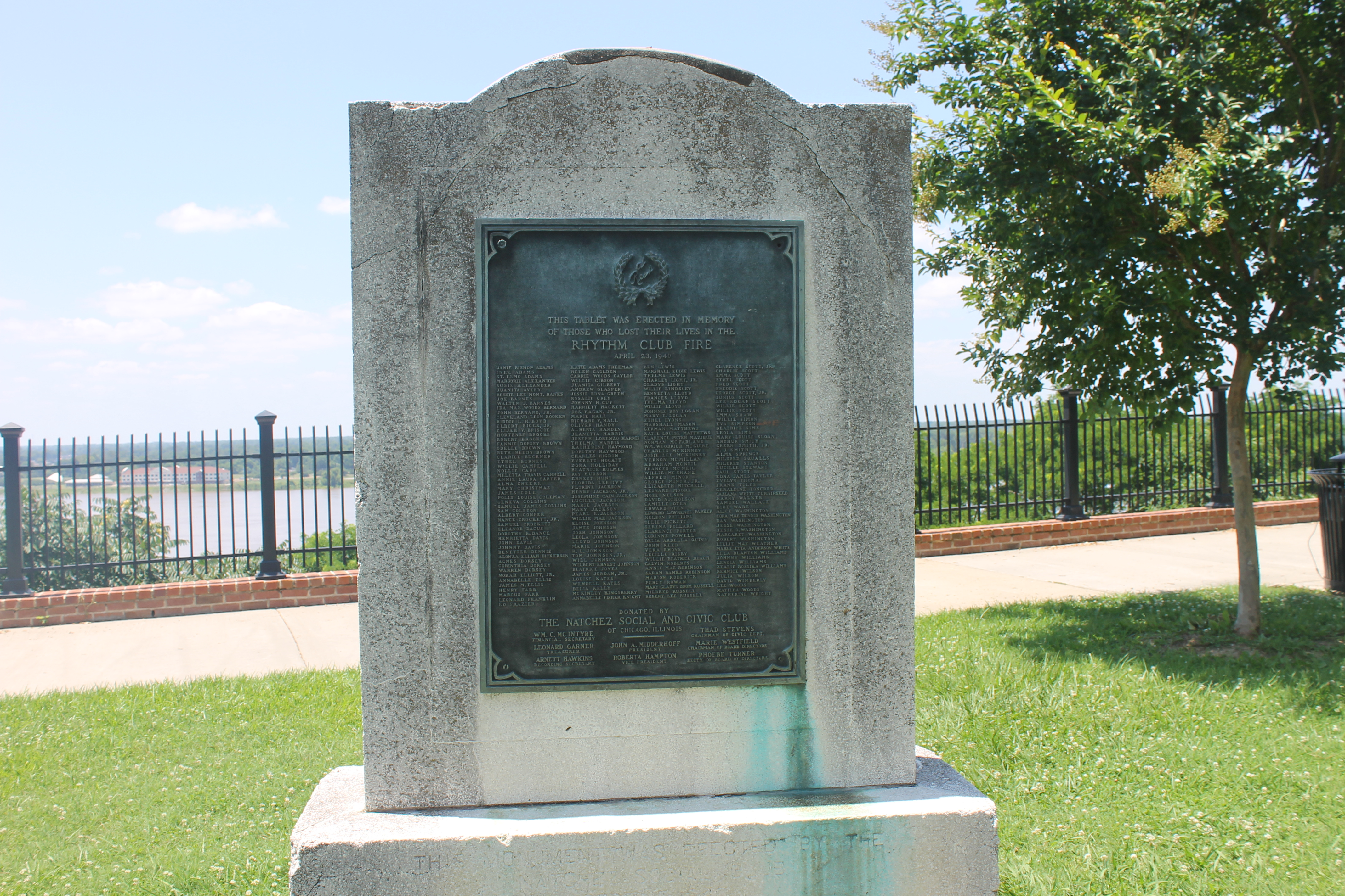 Plaque with names of those who survived the Rhythm Club fire of April 23, 1940 in Natchez, MS